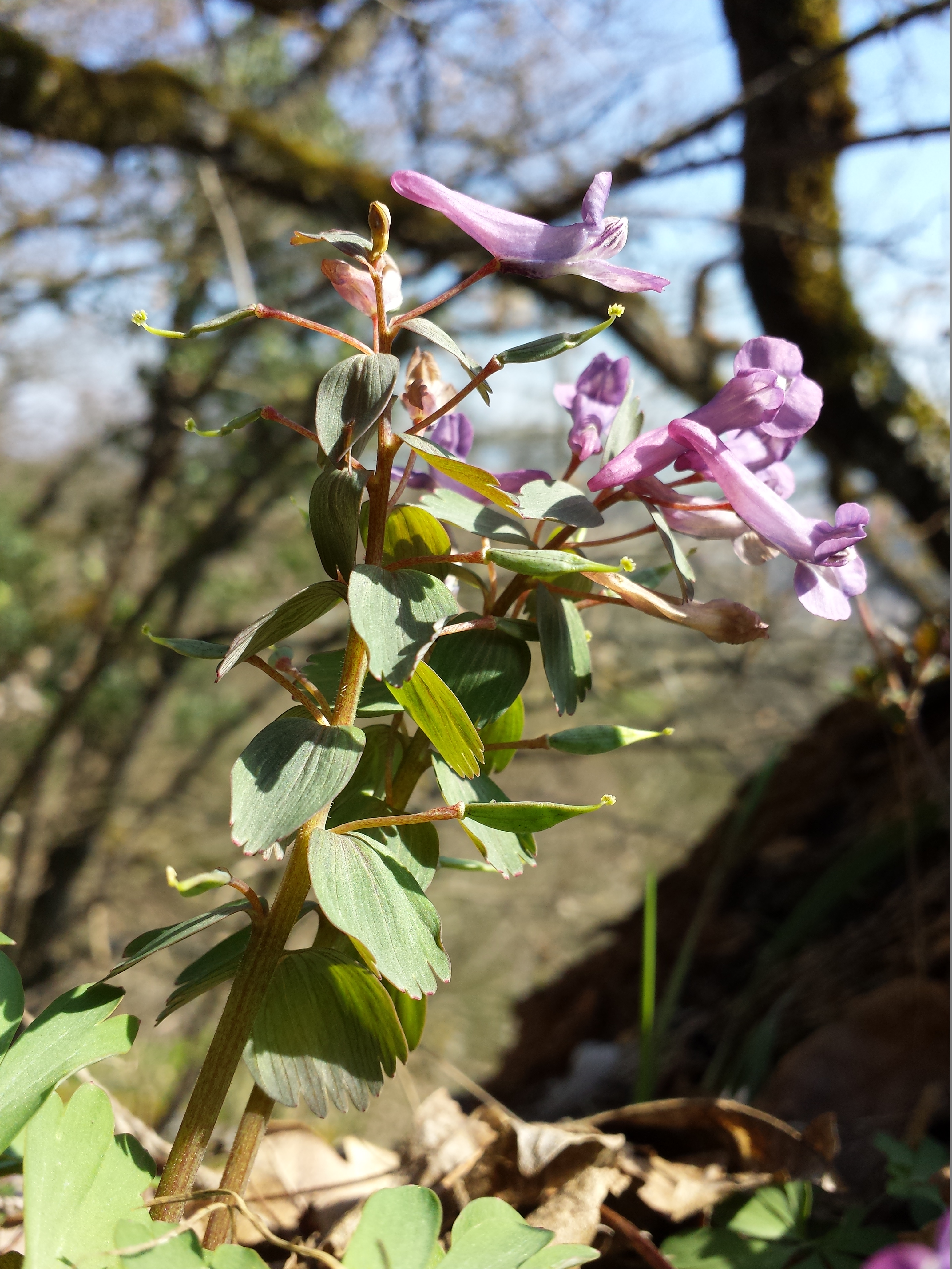 Inflorescence/infructescence Taxonym: Corydalis solida ss Fischer et al. EfÖLS 2008 ISBN 978-3-85474-187-9 Location: Kamp Valley new Schimmelsprung castle ruin, district Horn, Lower Austria - ca. 350 m a.s.l. Habitat: dedicious forest